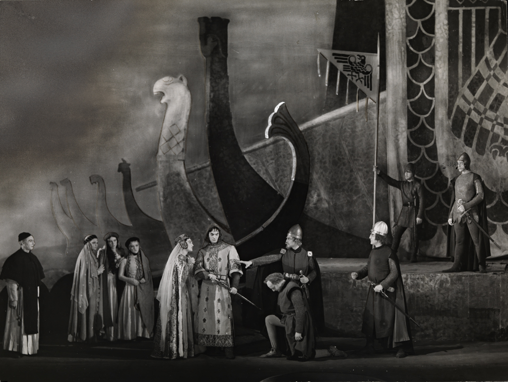 Tittel / Title: Scener fra "Kongebrødrene" August Oddvar as Sigurd and Gerd Grieg as Queen Malmfrid Motiv / Motif: Åtte handlinger fra "Kong Eystein" og scener fra "Sigurd Jorsalfar". Festforestilling på Nationaltheatret i anledning Bjørnson-jubileet 1932. Premieredato: 7. desember, 1932. August Oddvar som Sigurd og Gerd Grieg som Dronning Malmfrid. Dato / Date: 1932 Fotograf / Photographer: ukjent / unknown Sted / Place: Oslo Eier / Owner Institution: Nasjonalbiblioteket / National Library of Norway Lenke / Link: Bildesignatur / Image Number: bldsa_BB1083 Les Sigurd Jorsalfar i NBdigital.